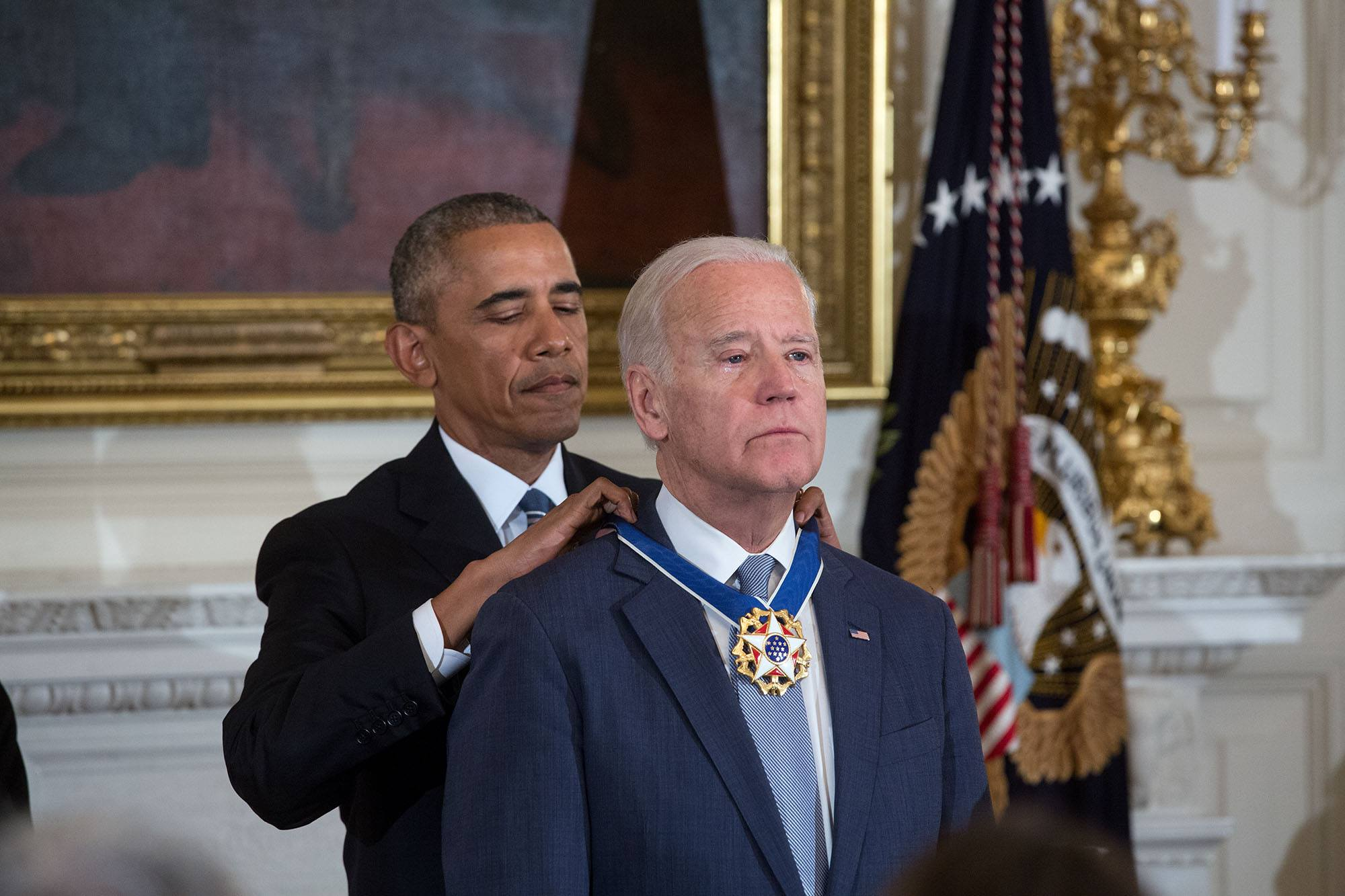 President Barack Obama presents Vice President Joe Biden with the Presidential Medal of Freedom with Distinction during a tribute to the Vice President in the State Dining Room of the White House, Jan. 12, 2017. (Official White House Photo by Chuck Kennedy)